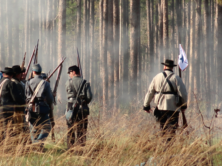 Reenactor's depict the start of the Confederate advance. Olustee Battlefield, 2 miles east of Olustee on U.S. Route 90 in the Osceola National Forest Olustee. On February 20, 1864, more than 11,000 cavalry, infantry and artillery troops fought a five-hour battle in a pine forest near a railroad station called Olustee, Florida. The four hour battle ended in defeat for the Union troops and preserved Confederate control of the interior and the capital of Florida until the war ended. Tallahassee was the only Confederate capital east of the Mississippi River not taken by the Federal Armies.